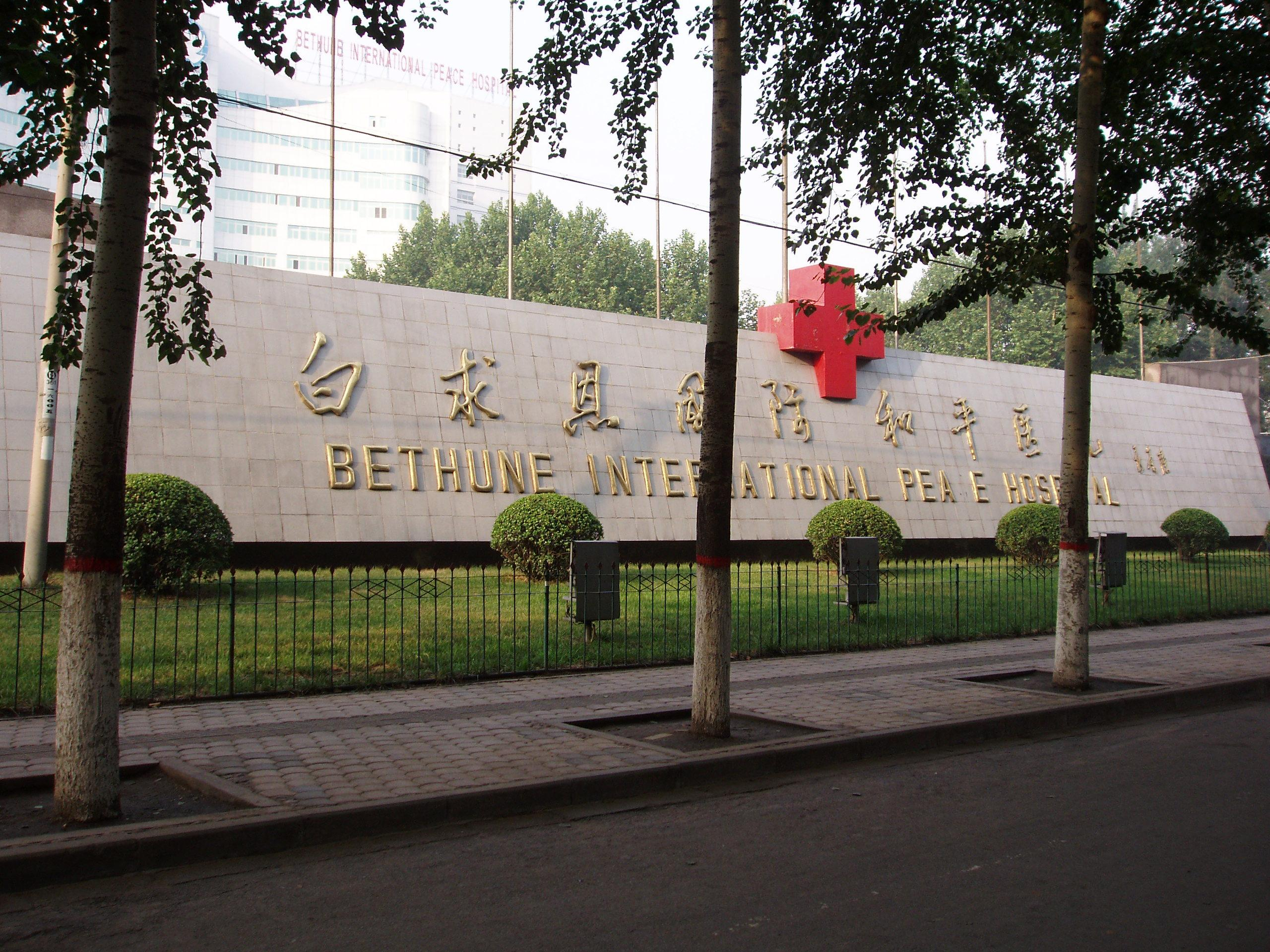 Bethune International Peace Hospital under the Chinese Red Cross Society in Shijiazhuang, China